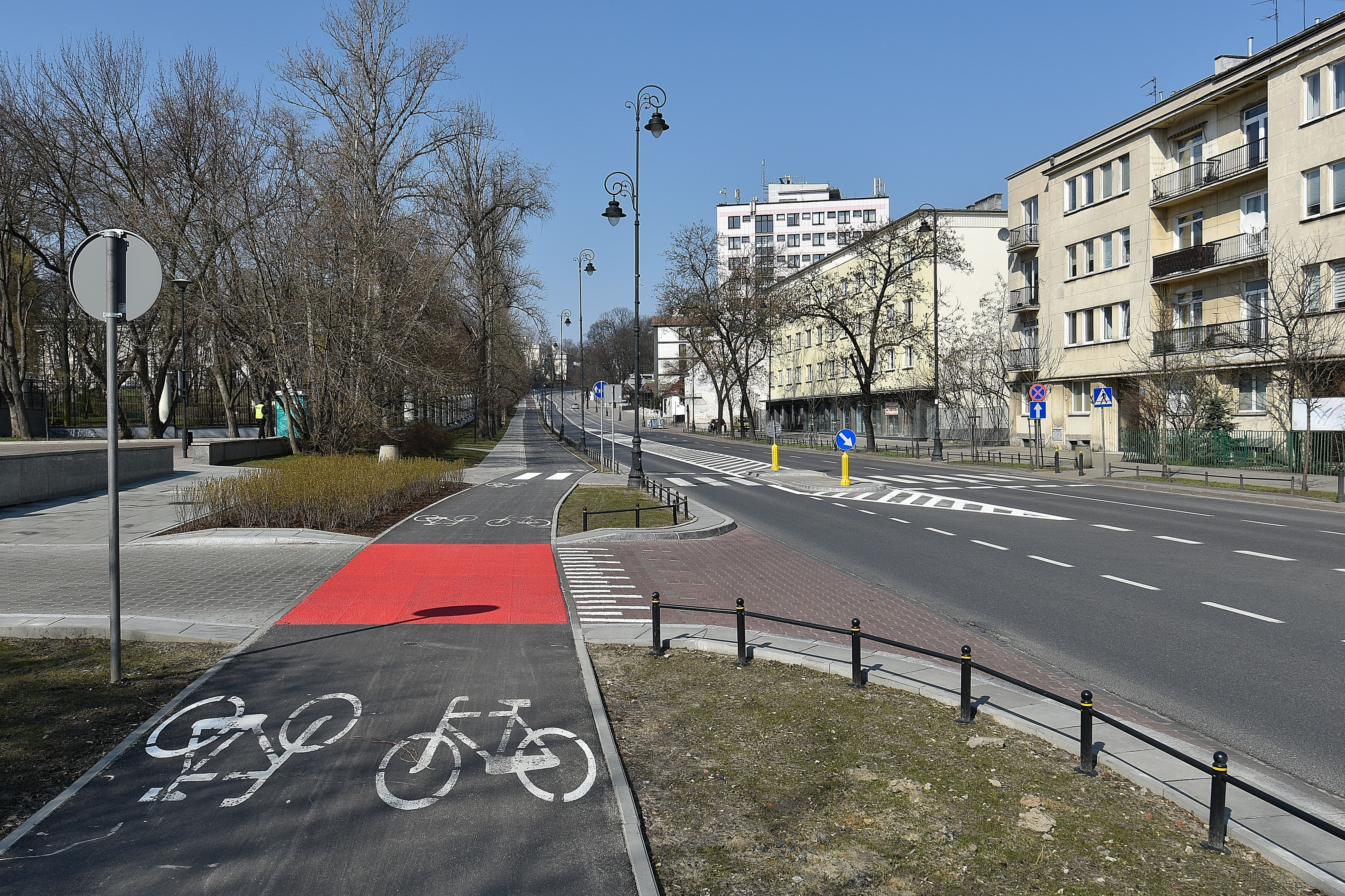 Belwederska Street in Warsaw